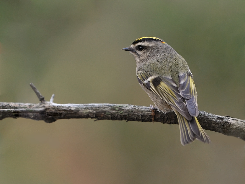 A Golden-crowned Kinglet in Canada.